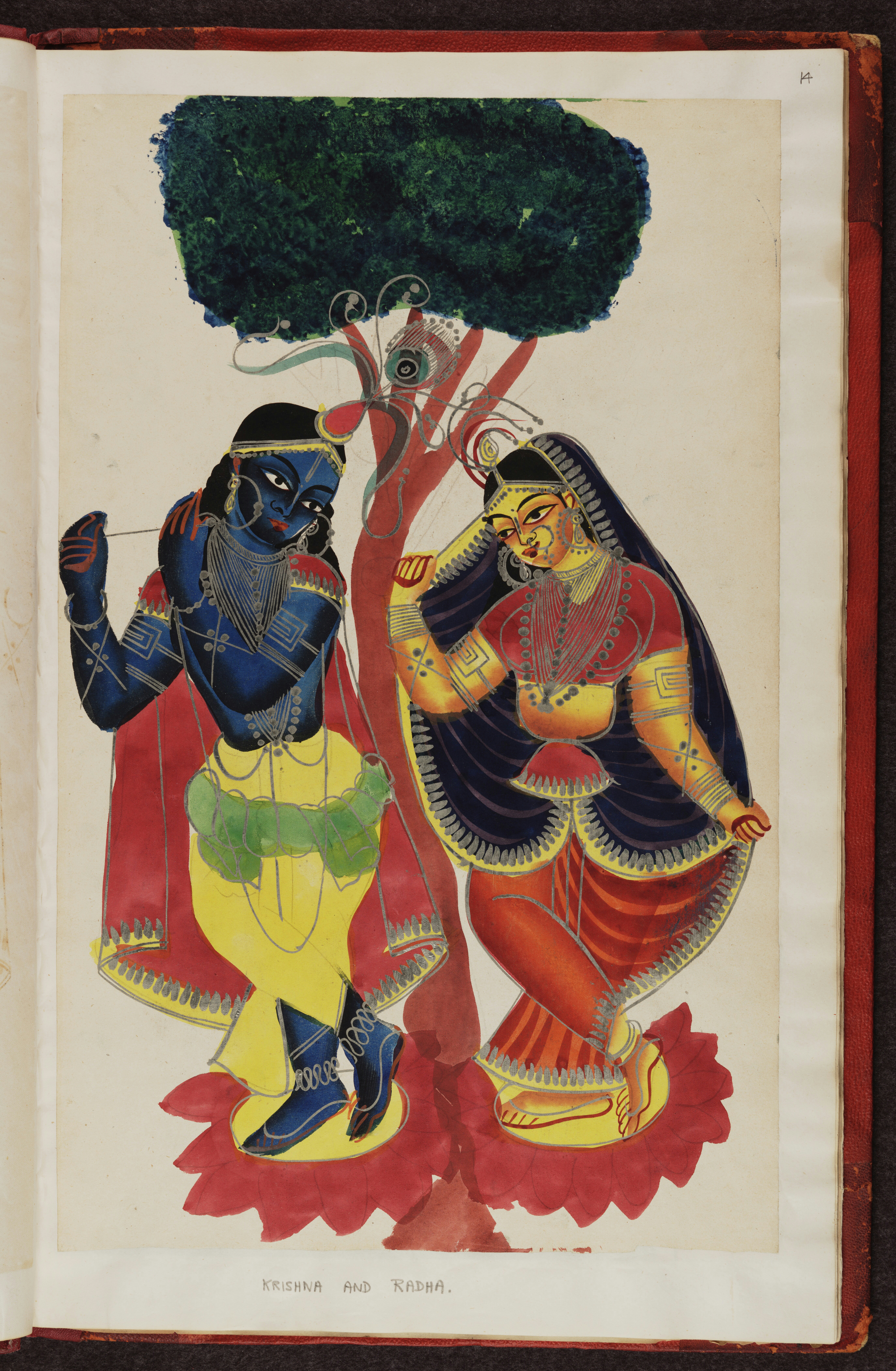 Krishna and his lover Radha dancing. Digitized Kalighat painting from 19th century Calcutta, created as inexpensive souvenirs for Hindu pilgrims visiting the famous temple of Kali; The paintings are bound in a single volume, which includes eight hand-coloured woodcut prints (ff. 29-36). They were acquired by Sir Monier Monier-Williams for the Indian Institute Library and Museum at Oxford as a result of his third fund-raising trip to India in the winter of 1883-1884. During this trip, he secured the help of various regional authorities in obtaining local art and craft work and sending them to Oxford. The Kalighat paintings and prints are listed in Babu T.N. Mukherji's "List of Articles collected for the Oxford Institute under the instruction of T.W. Holderness Esq. and Dr. George Watt," Calcutta, 1884, which is bound in the "Original Lists" MS volume held in the Department of Eastern Art, Ashmolean Museum. Shelfmark: MS. Ind. Inst. Misc. 21 [Arch. O. a. 7]